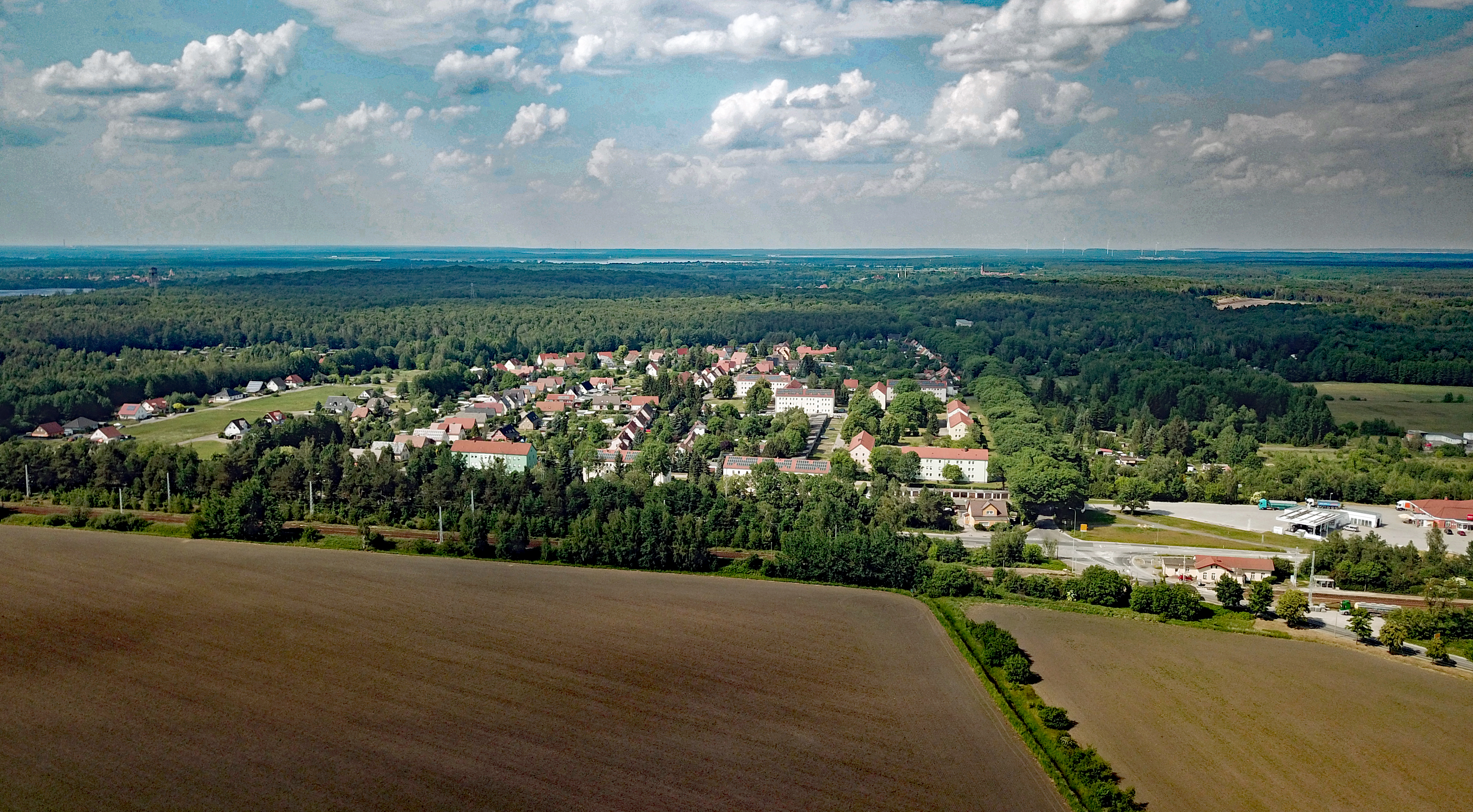 Laubusch Siedlung (Lauta, Saxony, Germany)